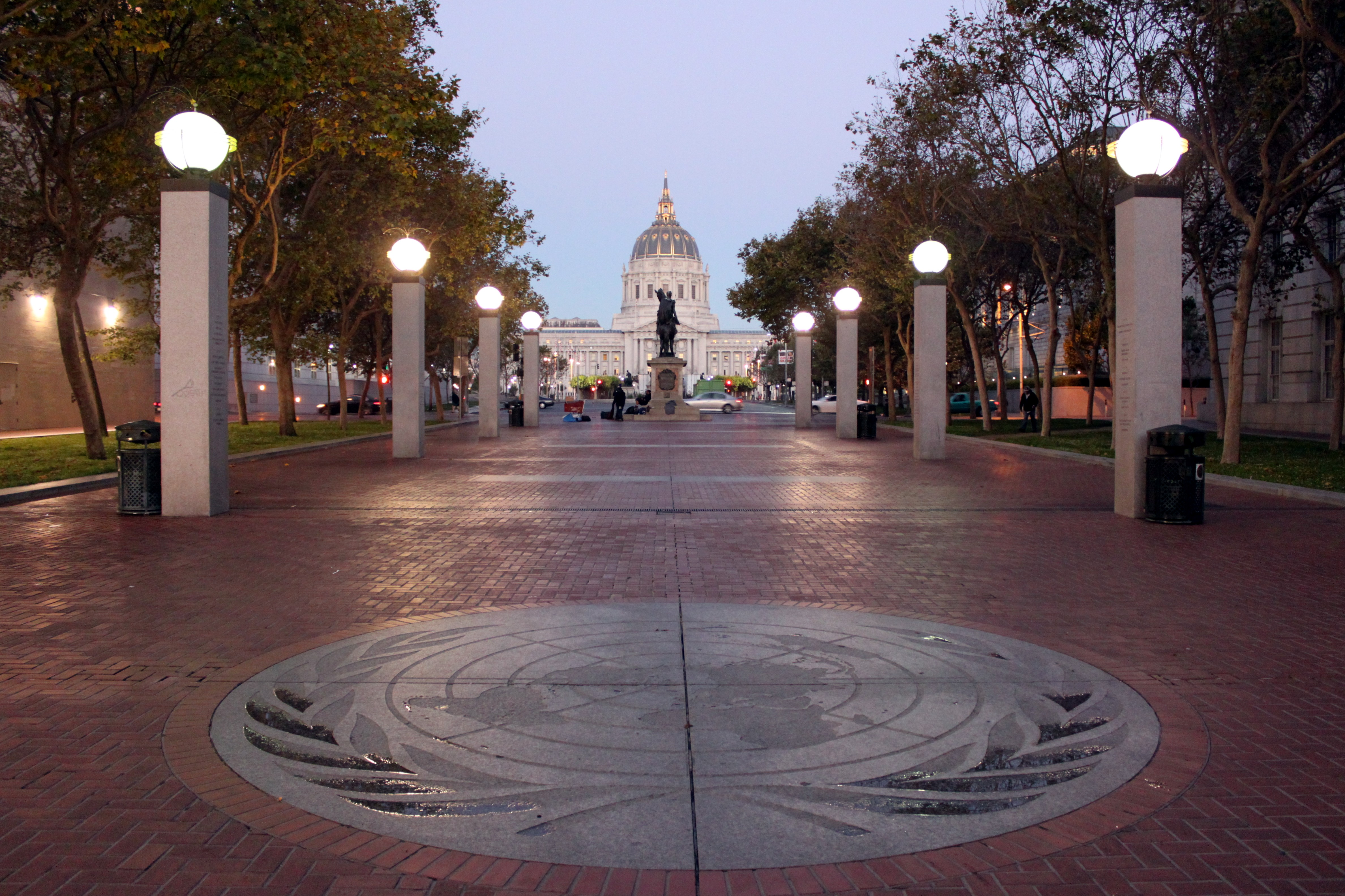 Civic Center San Francisco, California